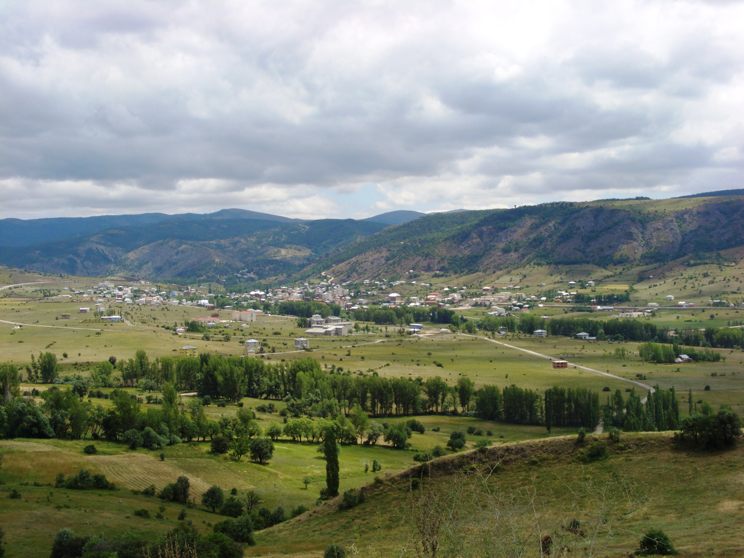 View of Alucra, capital town of Alucra District of Giresun Province in Turkey.